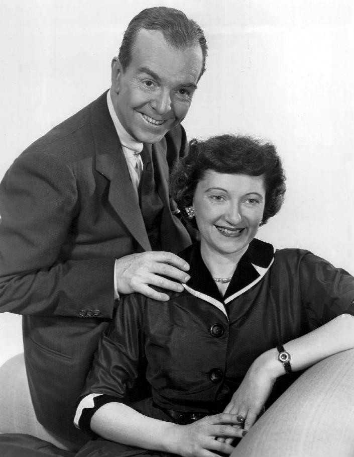 Photo of Alan Bunce and Peg Lynch from the premiere of their television program Ethel and Albert.